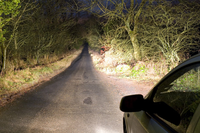 Ward Lane Ward Lane in Northumberland lit up by my car headlights.